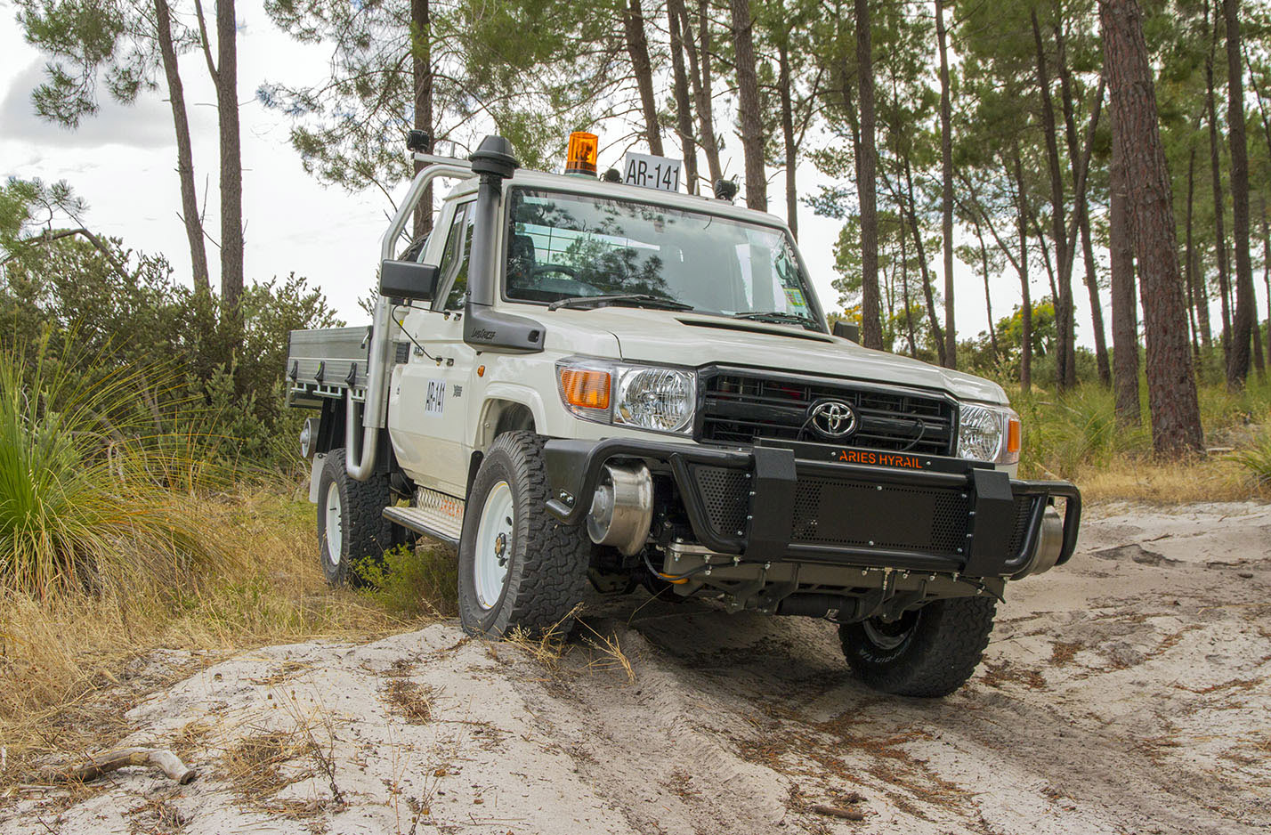 Toyota Land Cruiser fitted with an Aries Hyrail road-rail conversion to allow it to run on standard gauge railway lines. Shown here on a forest access road that leads to the railway line.